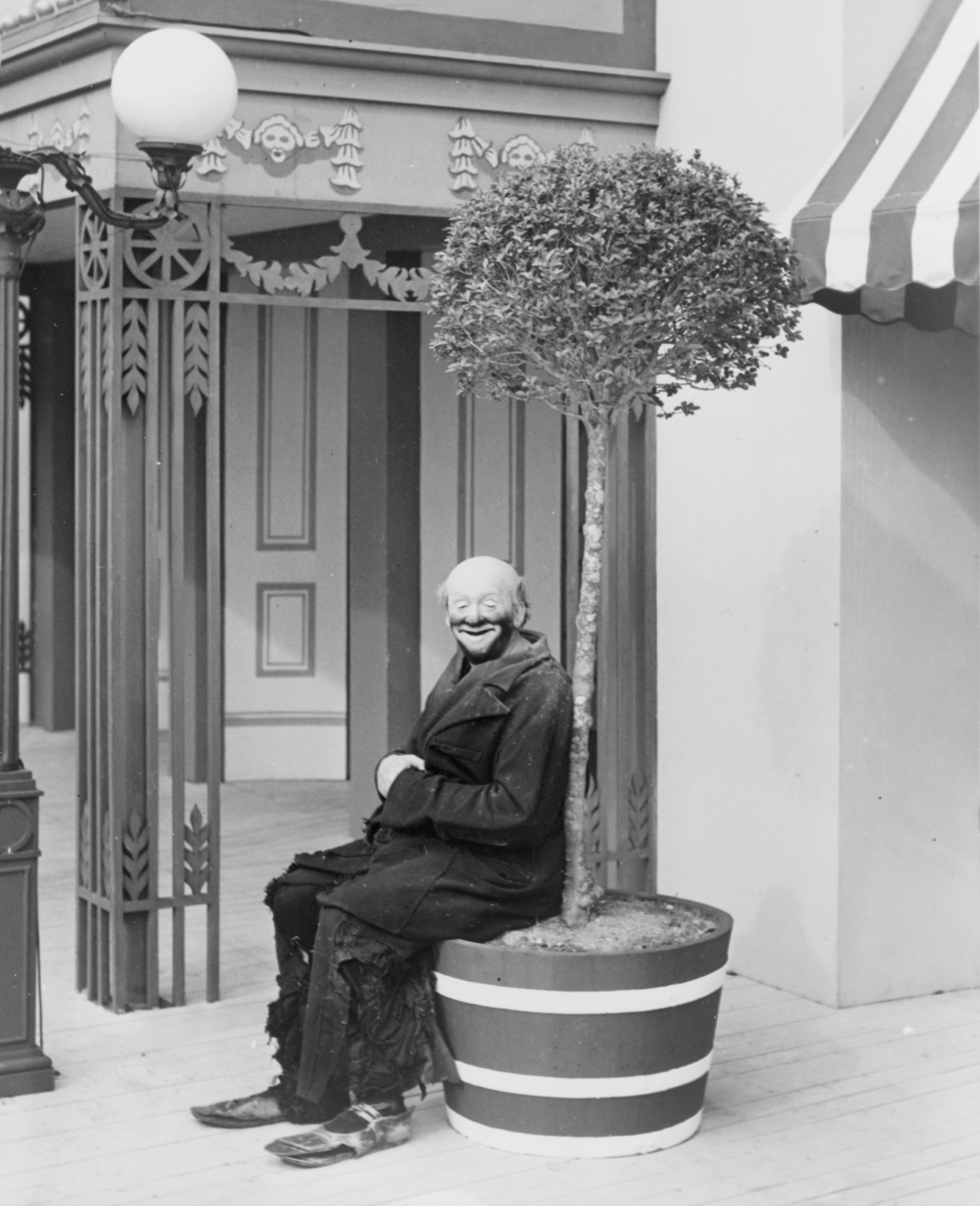 Joe Jackson, full-length portrait, facing front, seated beneath tree in half-barrel / World Telegram & Sun photo by Al Aumuller.